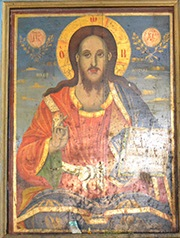 Klenike Church Icon